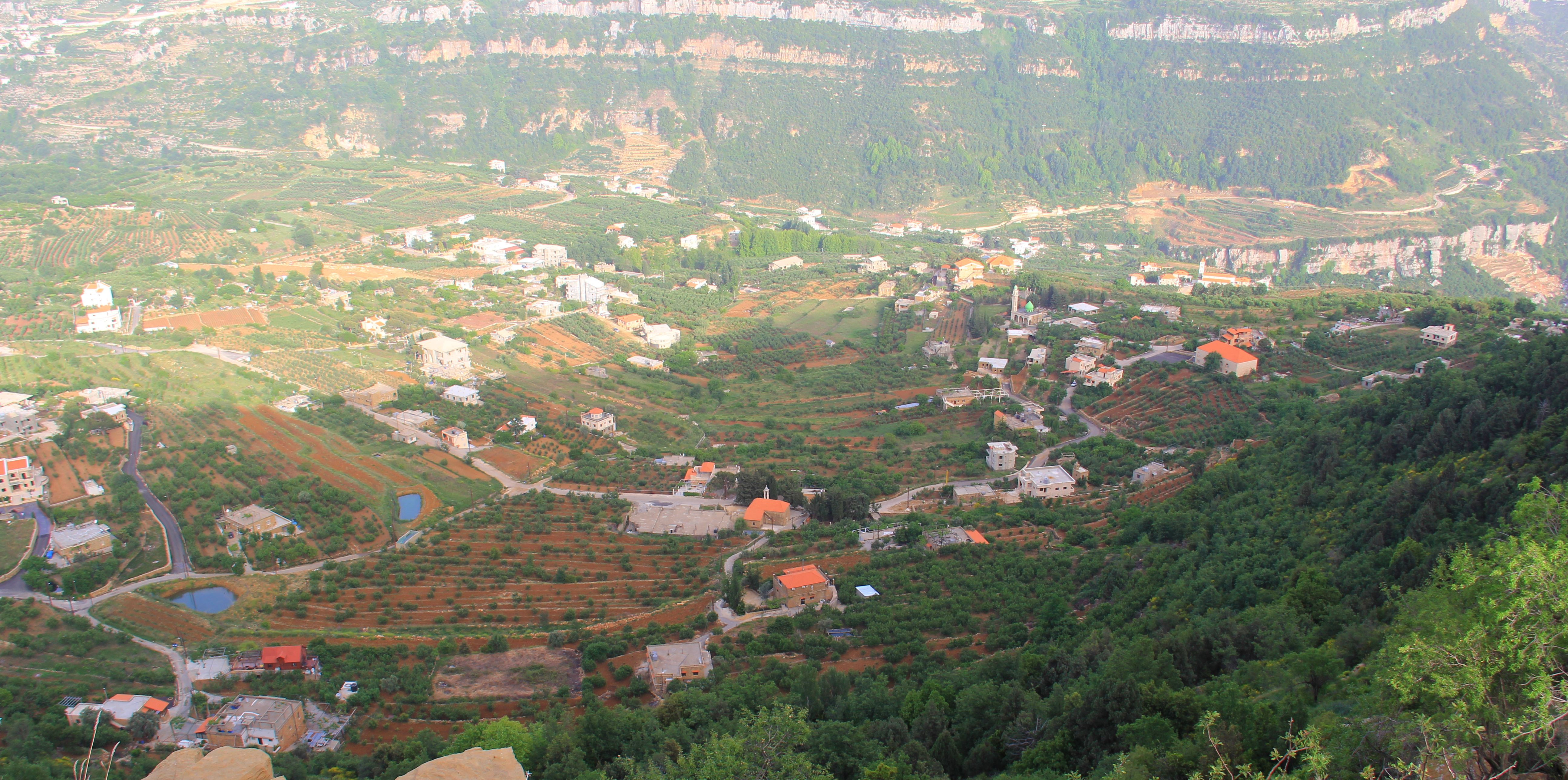 a general view of the village